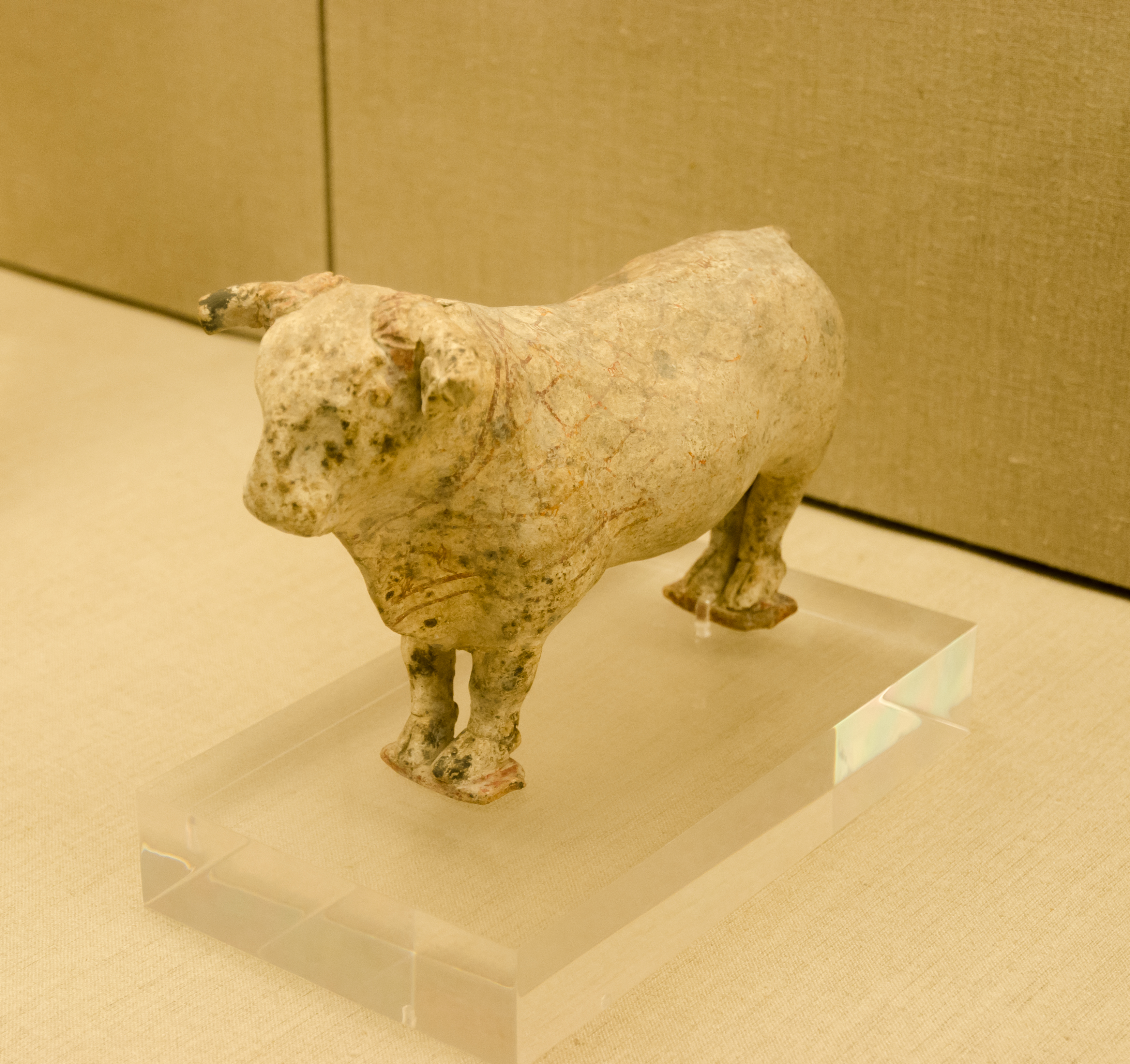 Bull figures from the Archaeological site of Akrotiri, Museum of prehistoric Thera, Santorini, Greece.